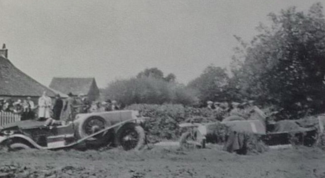 Next-day remains of a pileup crash in the "whitehouse curve" that occured at dusk in the evening of Saturday 18 June 1927 Le Mans involving the three favorite Bentleys and some other. The scene is: A Th. Schneider car stands crashed, in the middle of the road, hard to see in the dark because of the white house. Entry #1 (right) is Clement & Callingham's Bentley, was the first to hit the Th. Schneider. Callingham was thrown out of the car. On the left is #2, d'Erlanger & Duller, which was the next on the scene, Duller had jumped out just before the impact. The third Bentley (Benjafield & Davis in #3) saw the debris and Davis managed a "limited impact", and eventually continued the race. Hence, #3 is not in this picture. The "white house" (maison blanche) would maybe the the one in the back. Only minor injuries. So goes the Wikipedia story: [1] Since this is daylight, it may be the next day.